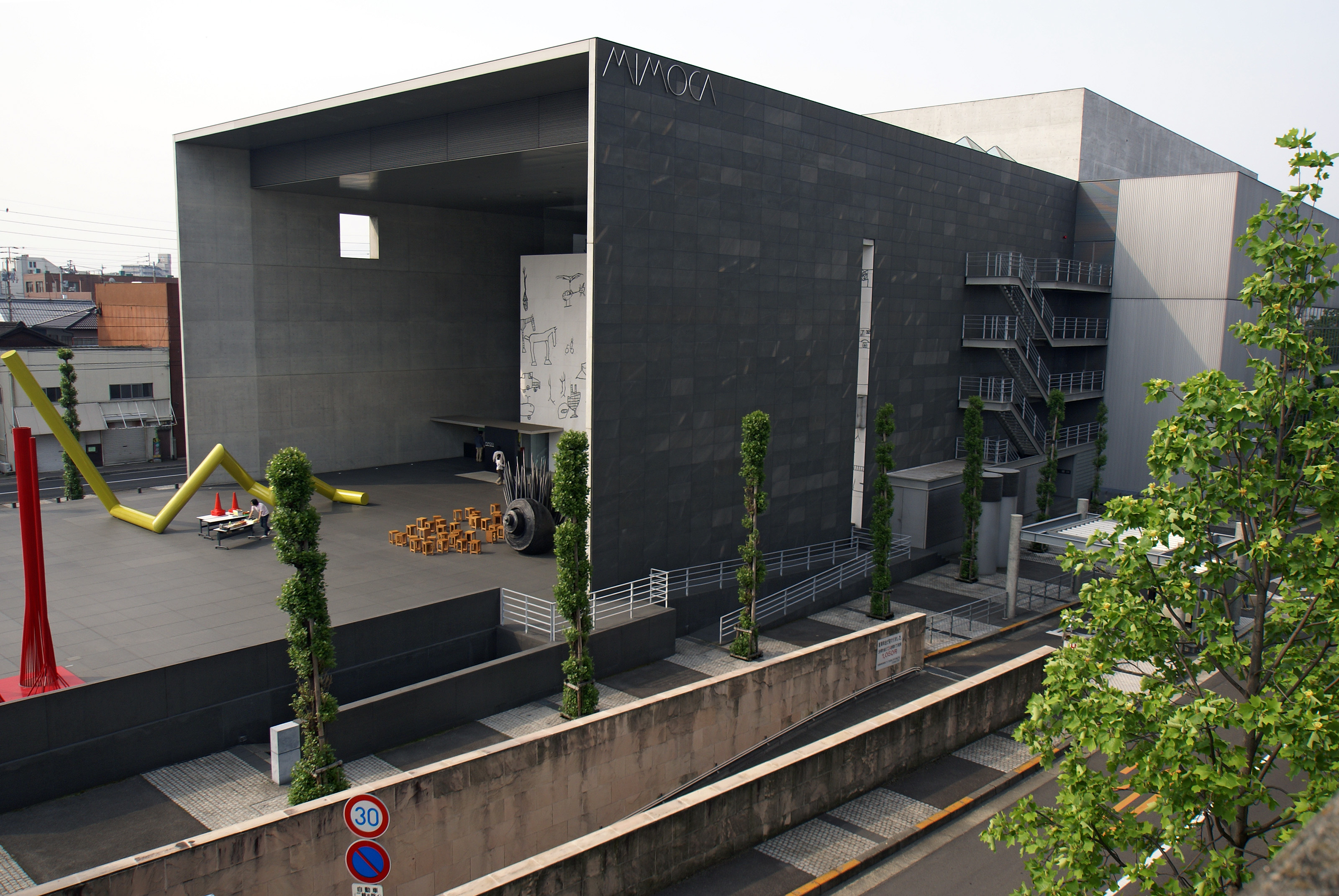 Marugame Genichiro-Inokuma Museum of Contemporary Art in Marugame, Kagawa prefecture, Japan